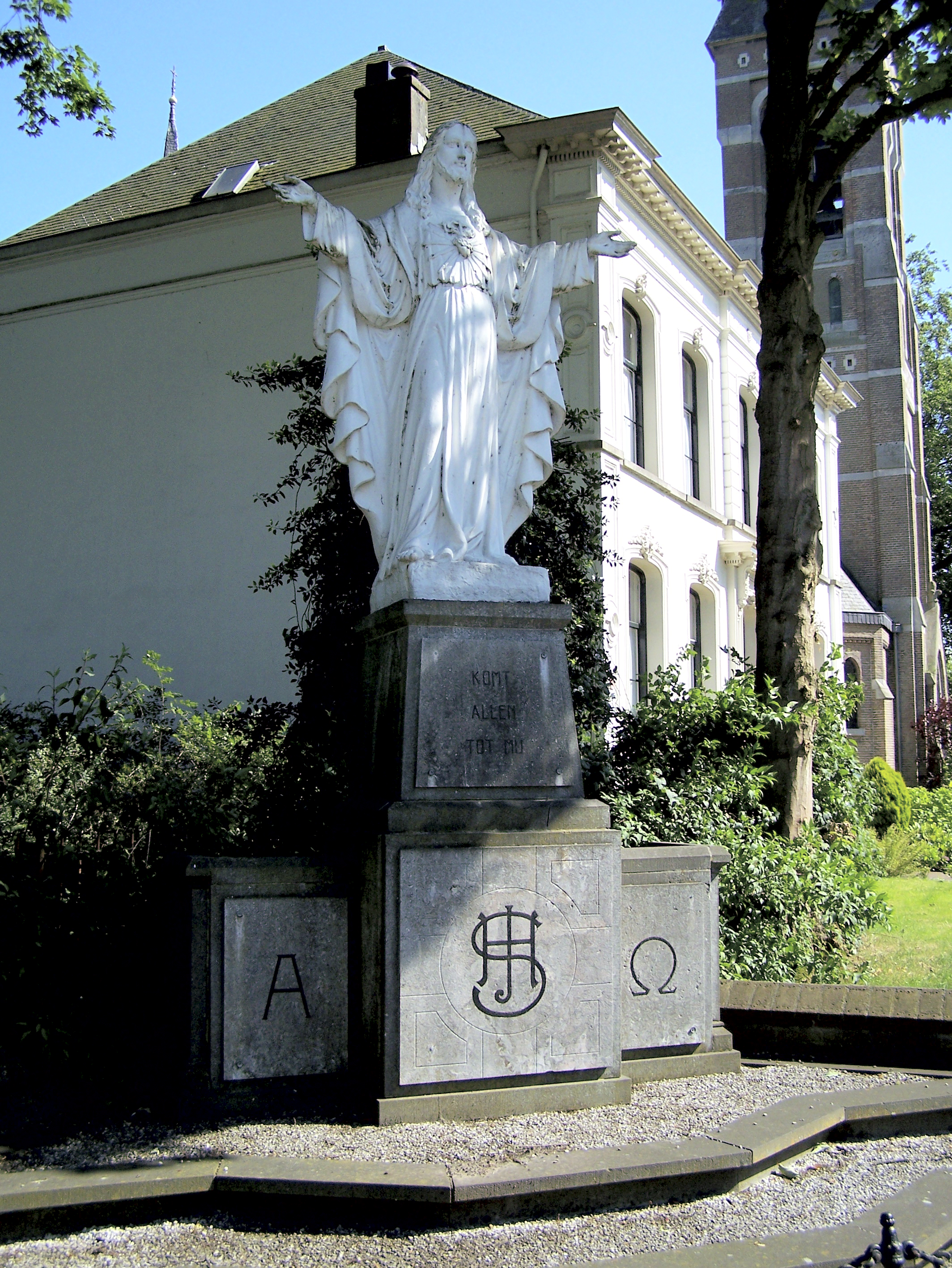 Sculpture of Christ of the Sacred Heart at the corner of the Kerkstraat and Goirleseweg in Riel.